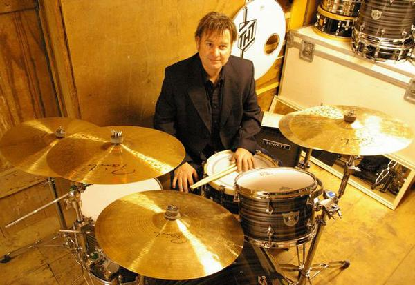 John Richardson with his Liverpool kit.